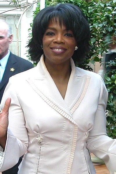 cropped version of Image:Oprah Winfrey (2004).jpg